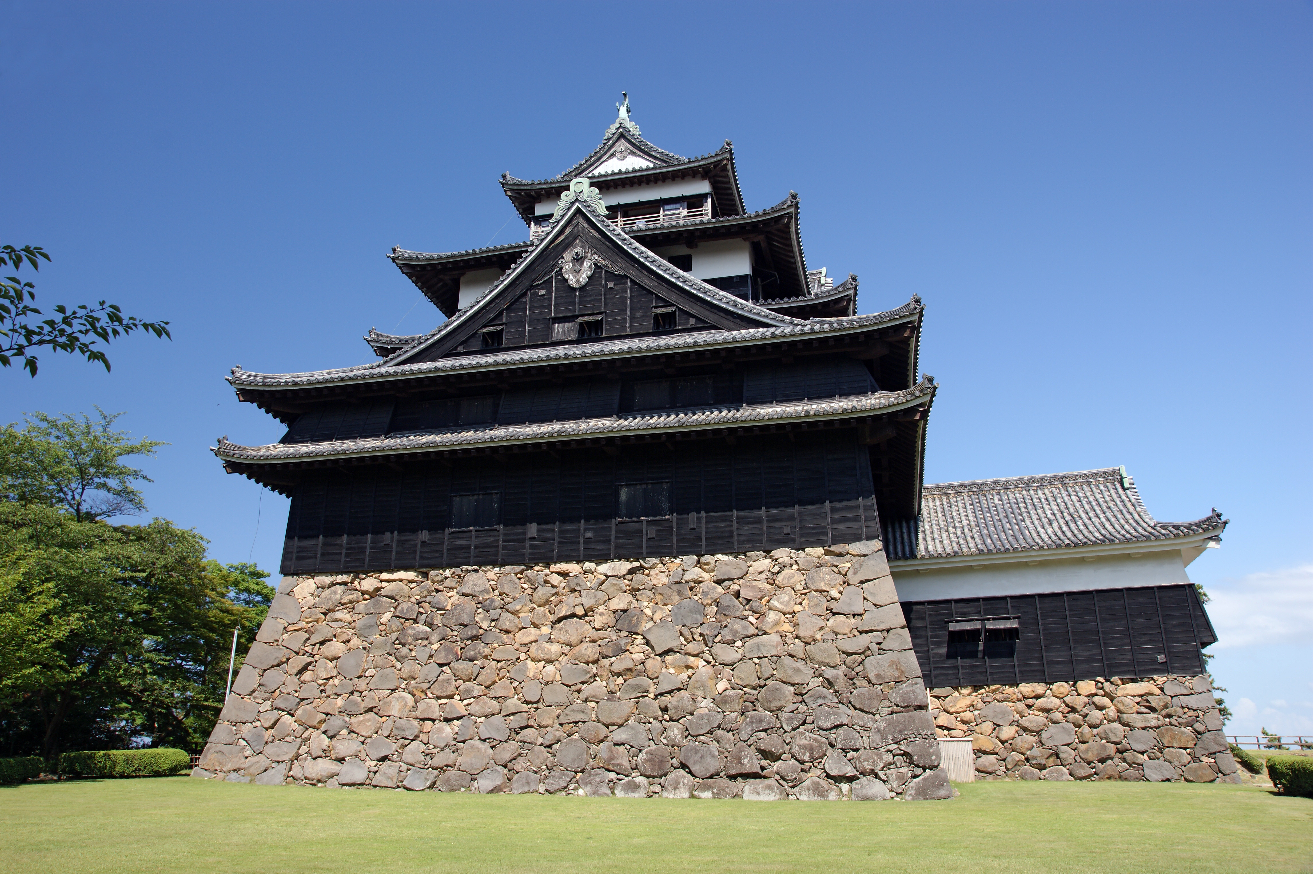 Matsue Castle in Matsue, Shimane prefecture, Japan